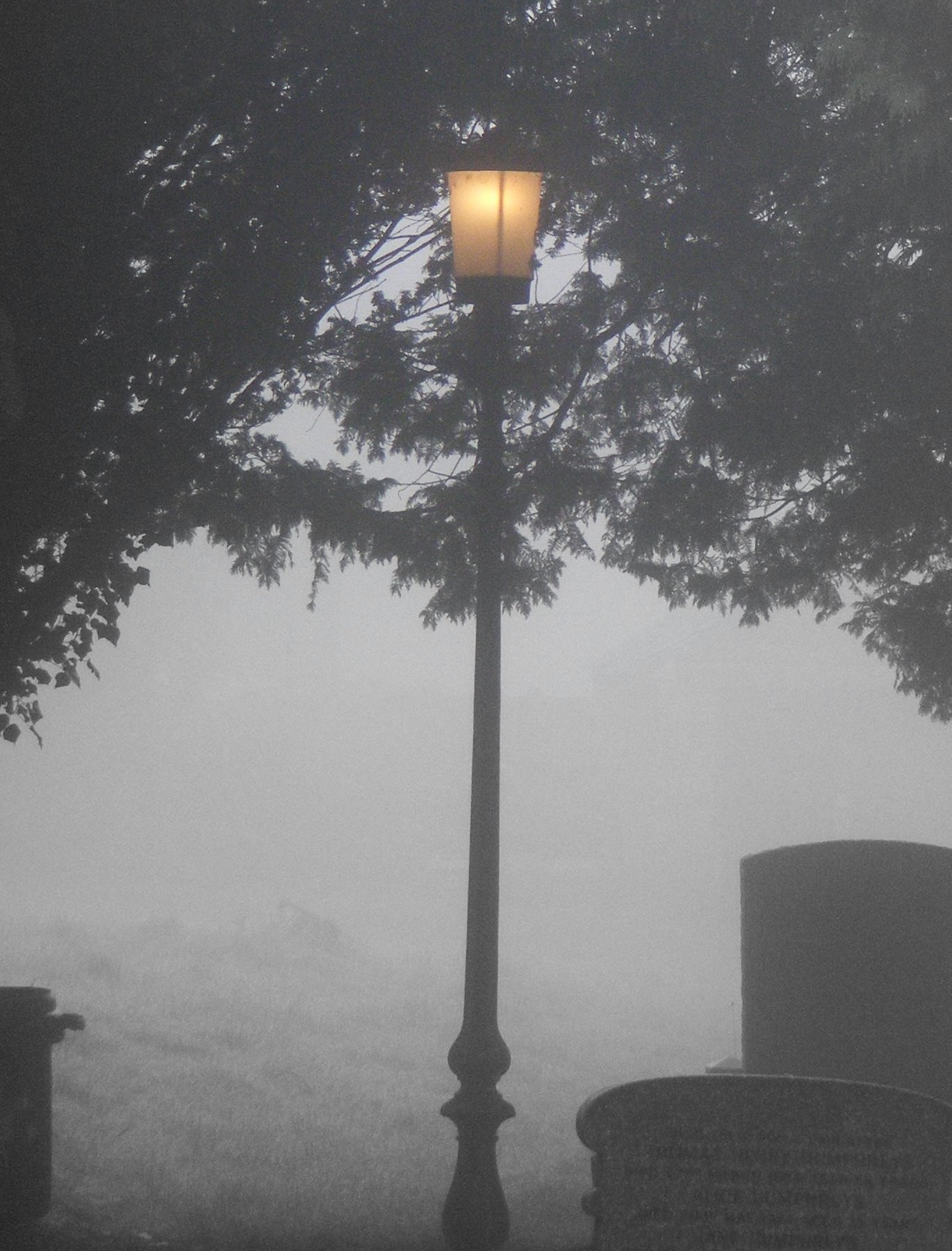 Lamp in St Andrew's Churchyard Bebington, Wirral